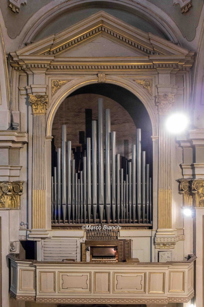 Front view of the instrument